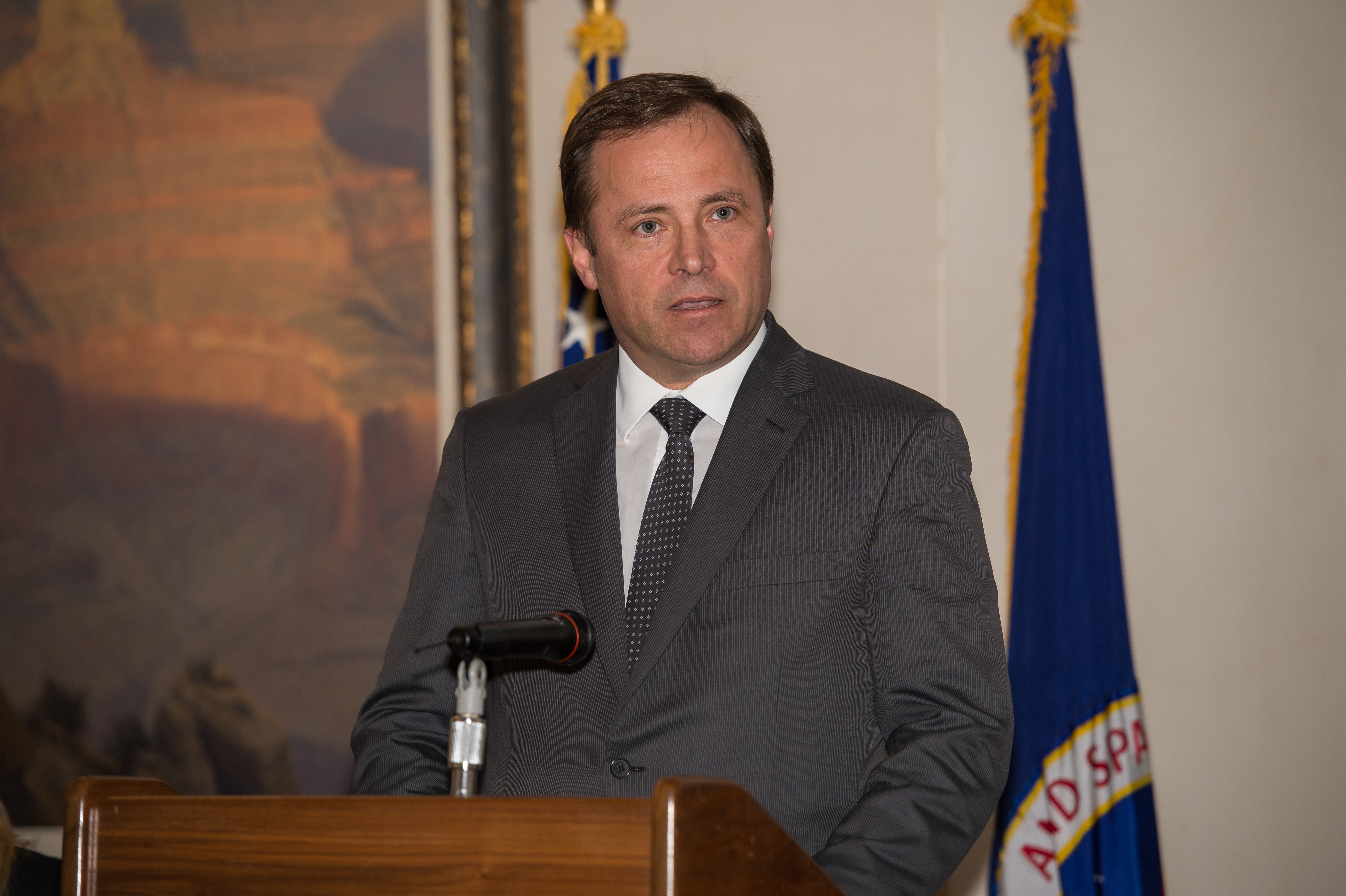 Head of the Russian Space Agency Roscosmos, Igor Komarov, speaks at an event celebrating the strength and stability of the space station’s international partnership, and the one-year crew, Thursday, March 24, 2016, at the Spaso house in Moscow, Russia. Mariella Tefft, wife of U.S. Ambassador John Tefft, hosted the event that was attended by NASA Administrator Charles Bolden as well as one-year crew members Scott Kelly of NASA and Mikhail Kornienko of Roscosmos.